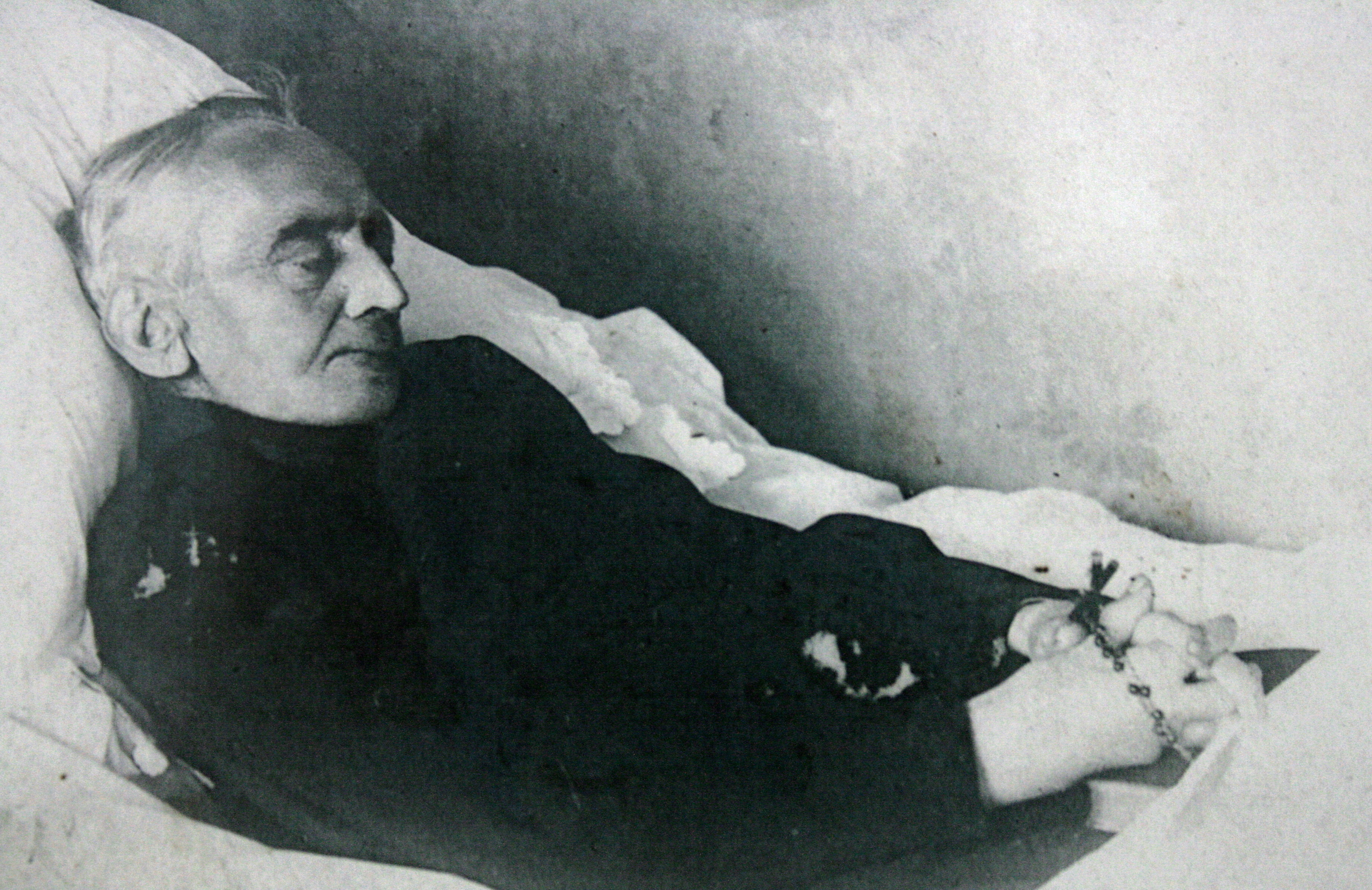 Adolf Daens on his deathbed